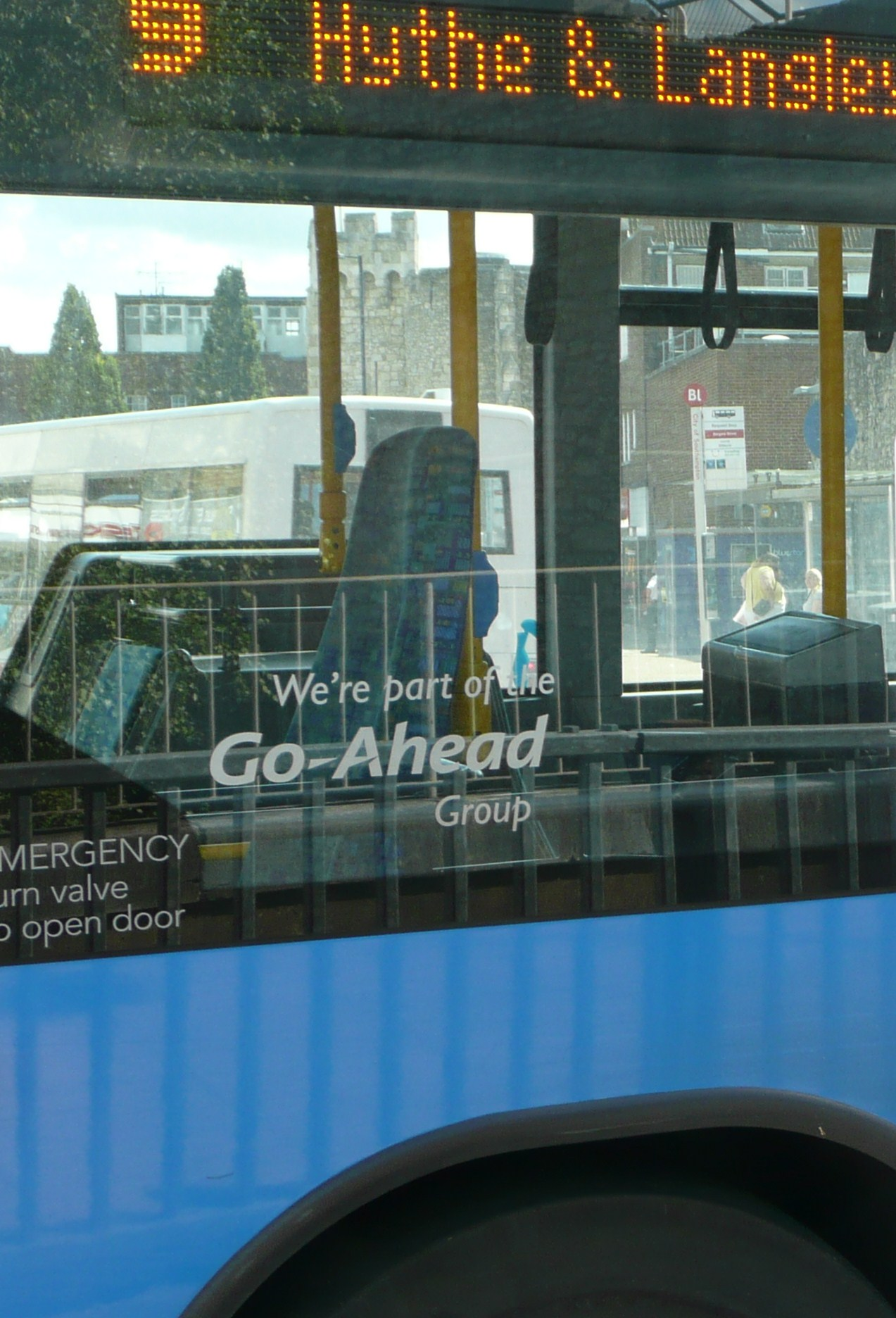 A photo of the slogan and logo used by Go-Ahead Group subsidaries to show that they are part of the group. This one is on the side of a Bluestar bus.